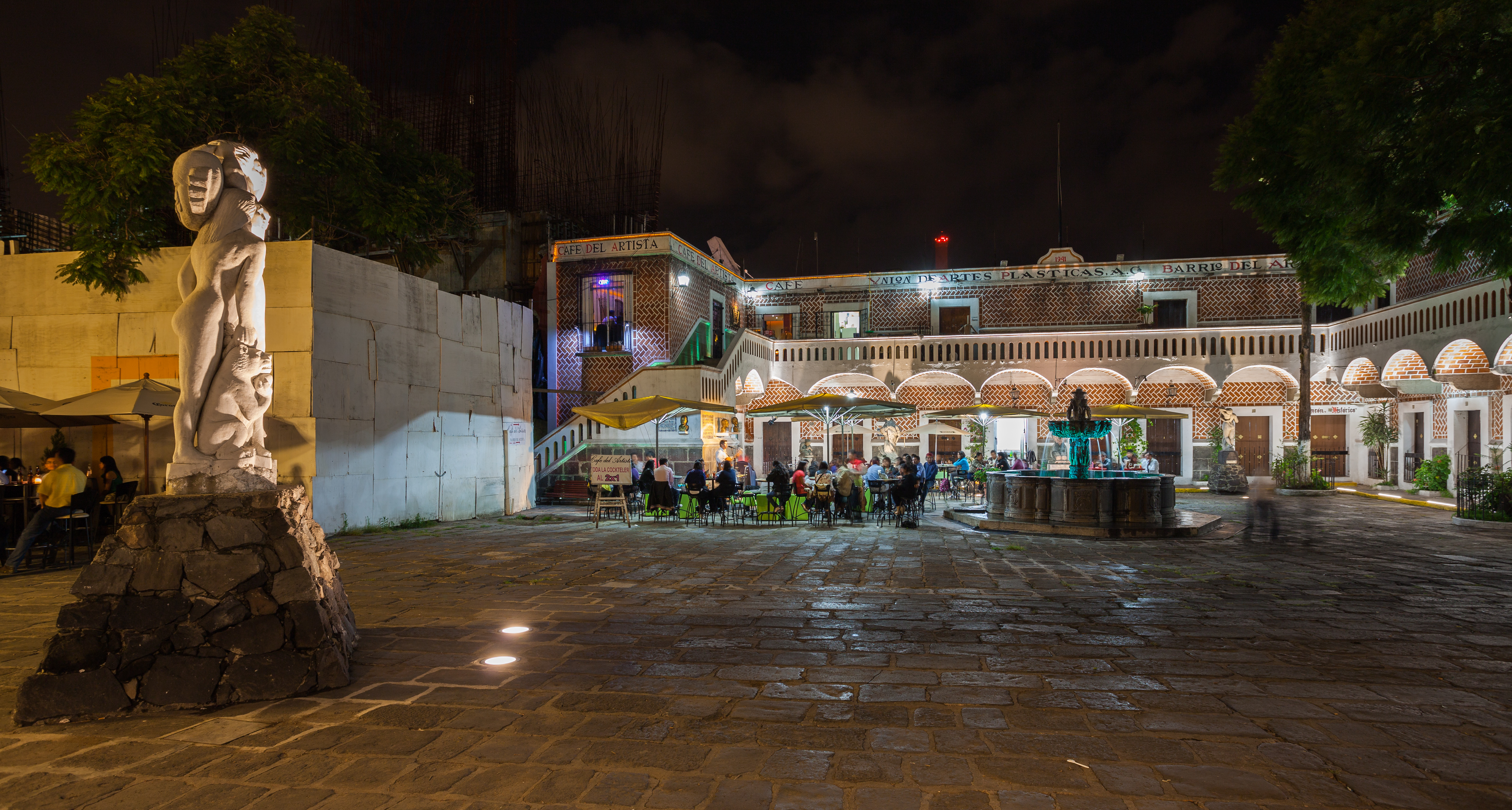 Market of El Parián, Puebla, Mexico